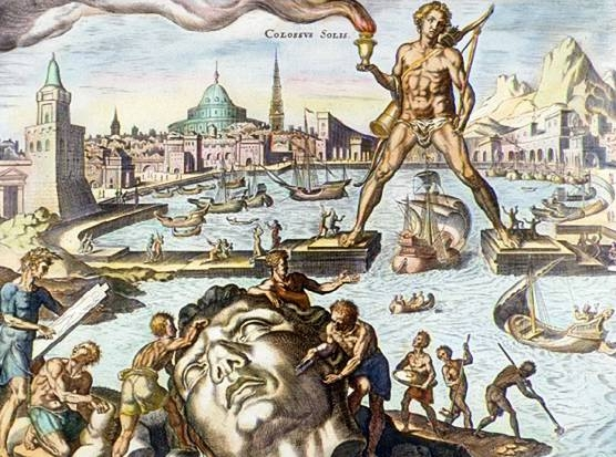 The Colossus of Rhodes, depicted in this hand-coloured engraving by Martin Heemskerck, was built about 280 bc. Standing 30 m (100 ft) high, it was built to guard the entrance to the harbour at Rhodes. The ancient Greeks and Romans considered it to be one of the Seven Wonders of the World.